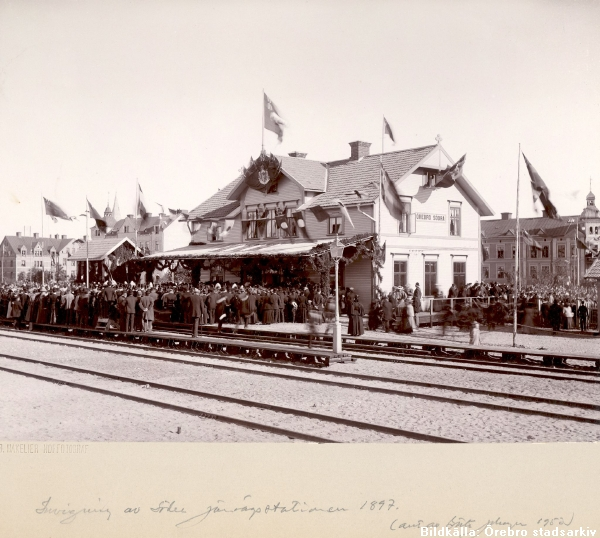 The railway station "Örebro södra", Örebro, Sweden